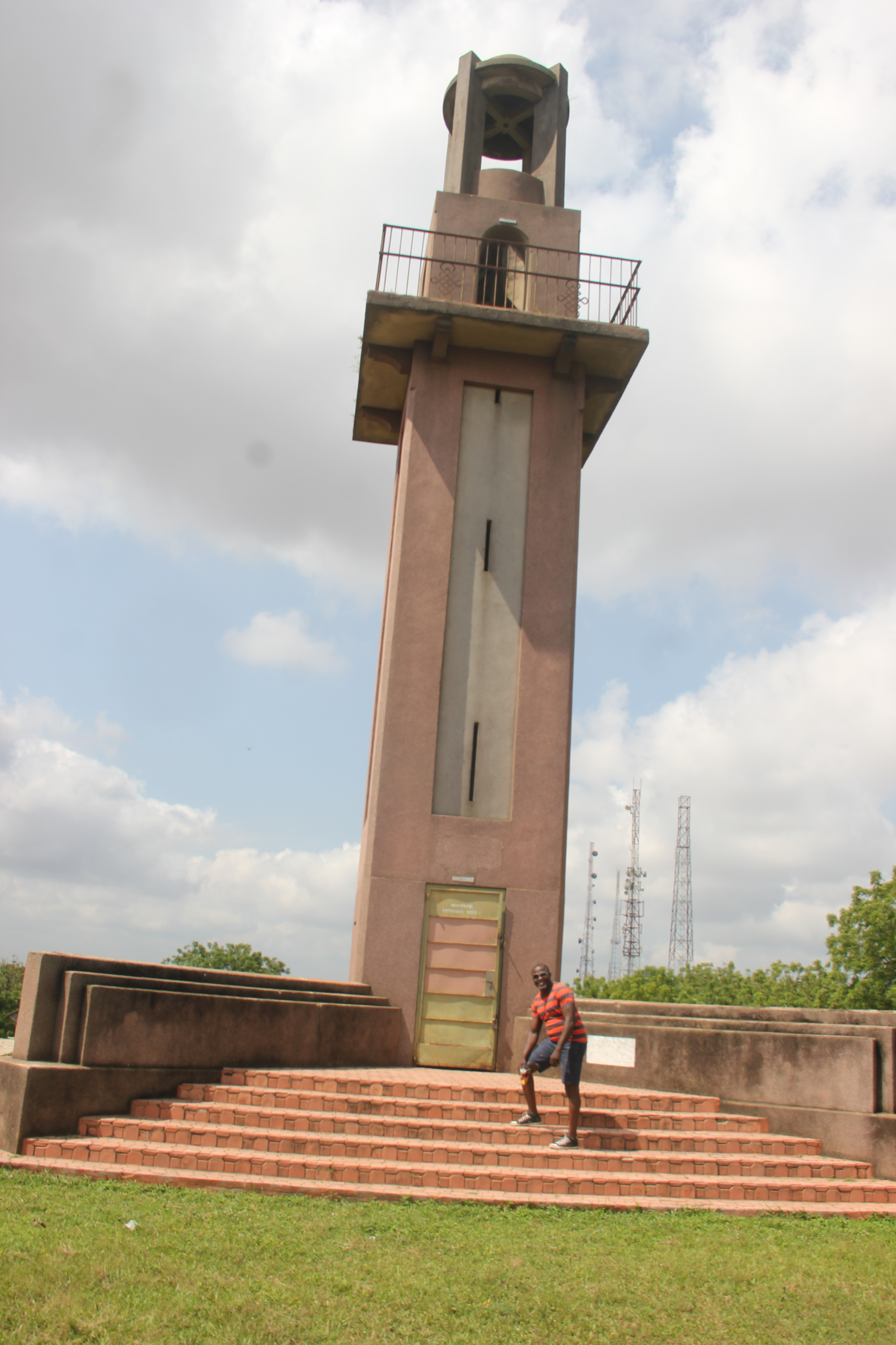 Further images of Ibadan city from Mapo Hall